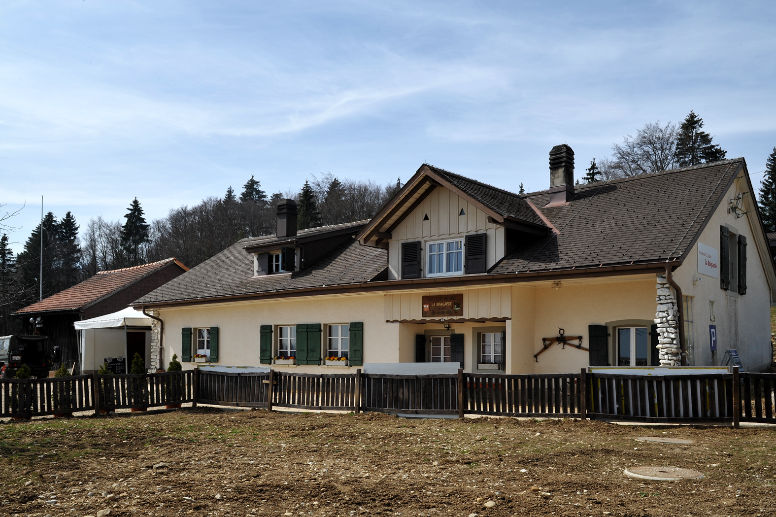 Mountain house «La Bragarde» in Les Près d'Orvin; Berne, Switzerland.